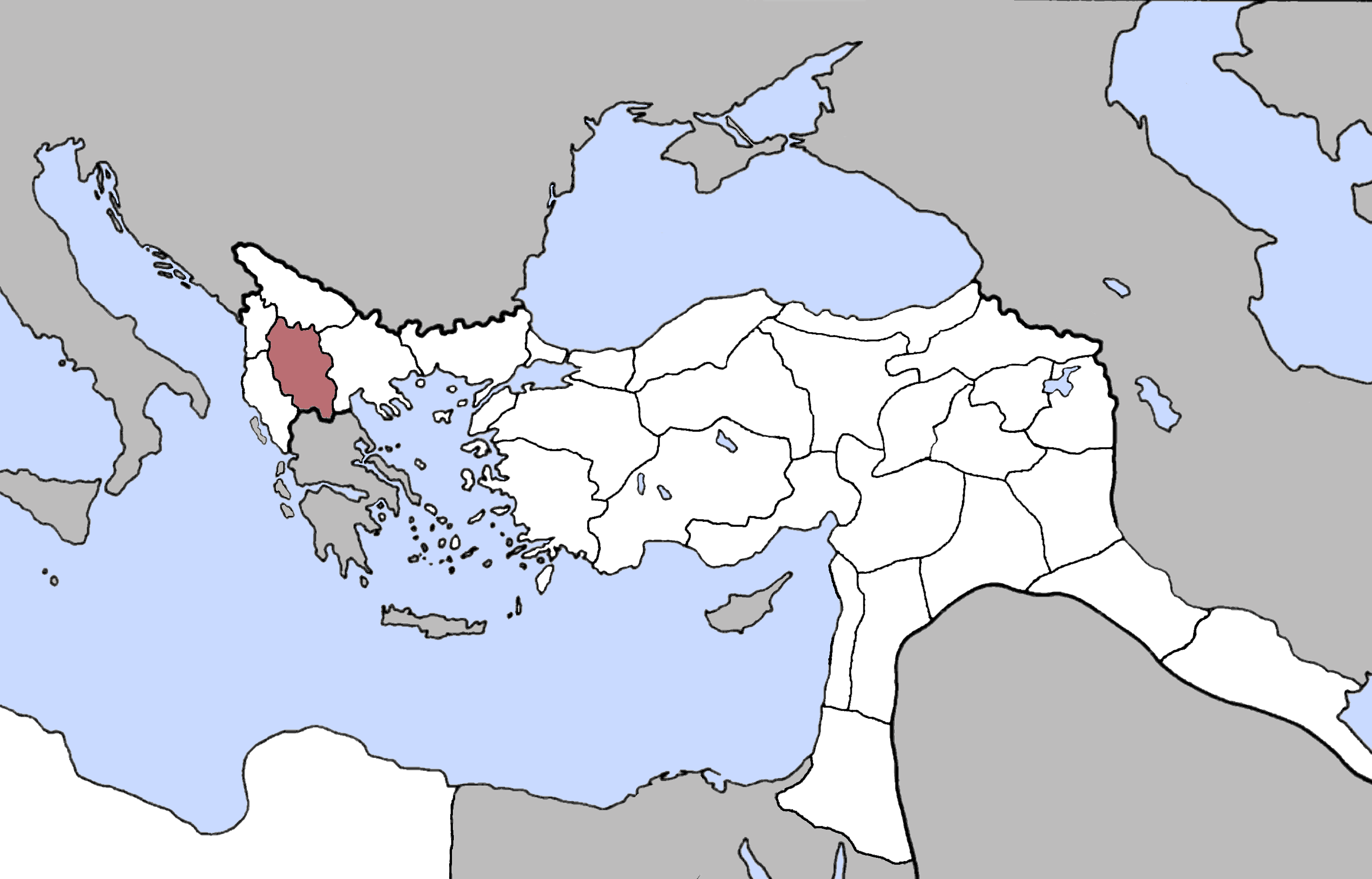 XY Vilayet, Ottoman Empire (1900). Source: An Economic and Social History of the Ottoman Empire, Volume 2 at Google Books By Suraiya Faroqhi, Bruce McGowan, Donald Quataert, Sevket Pamuk